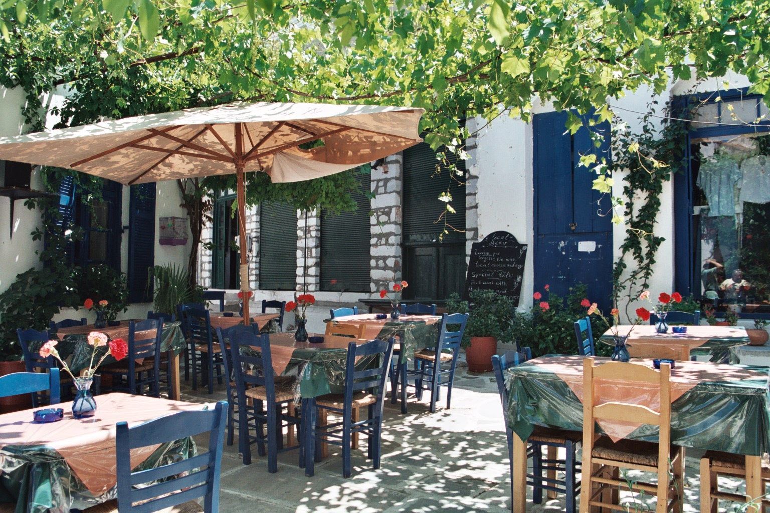 Tavern in Chalkio, Naxos, Greece.